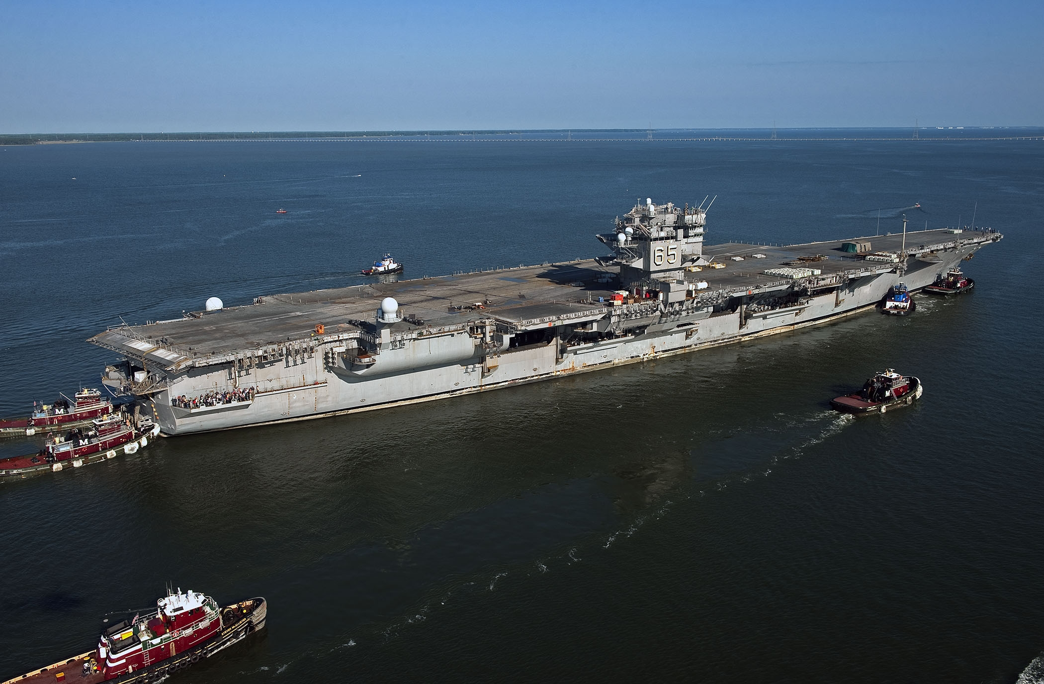 NORFOLK (June 20, 2013) The aircraft carrier USS Enterprise (CVN 65) makes its final voyage to Newport News Shipbuilding. The first nuclear-powered aircraft carrier will be dismantled at the shipyard prior to the scheduled commissioning of the next aircraft carrier Enterprise (CVN 80). (U.S. Navy photo courtesy of Huntington Ingalls Industries by John Whalen/Released) 130620-N-ZZ999-101 Join the conversation navylive.dodlive.mil